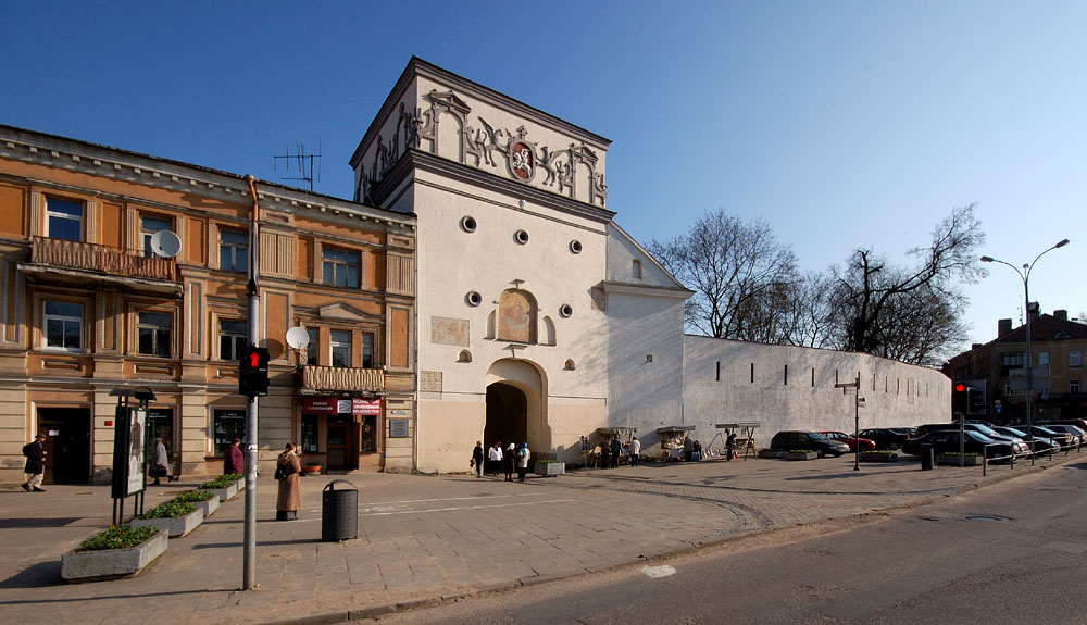 Gate of Dawn in Vilnius